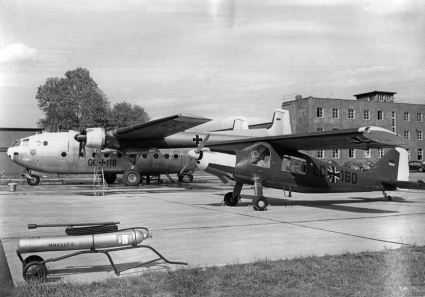 A Nord Noratlas and a Dornier Do 27 assigned to Lufttransportgeschwader 62 (62nd Air Transport Wing) of the West German Luftwaffe at Celle Air Base.